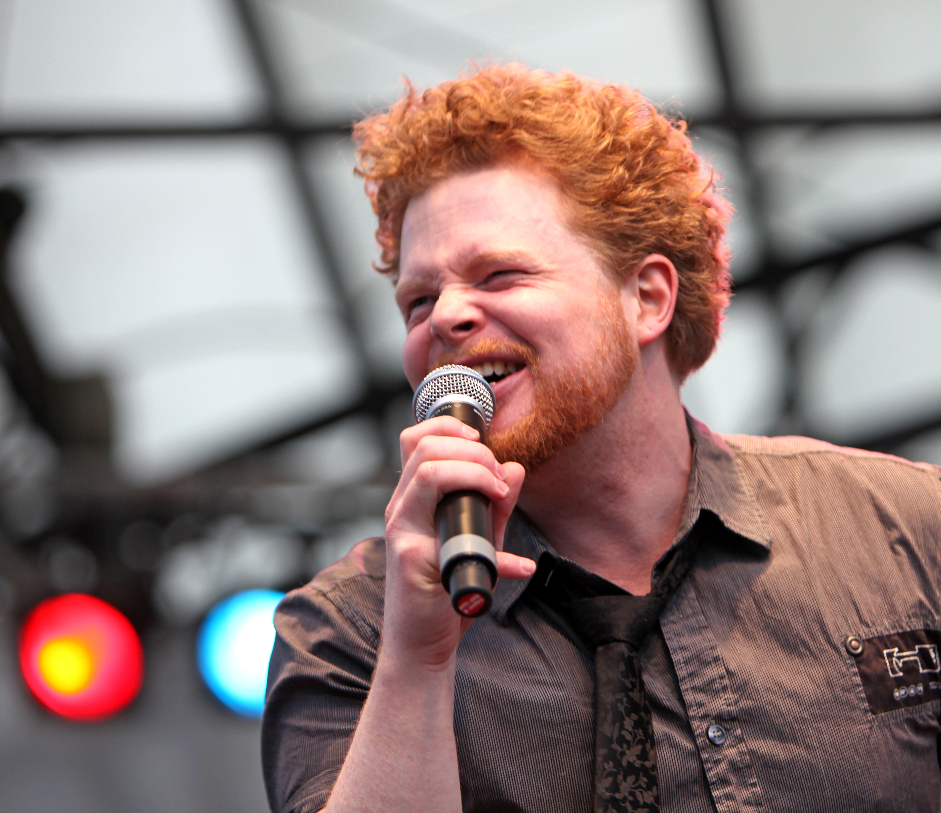 Singer Daniel Lindström singing at the National Day celebrations in Stockholm, Stockholm, on June 6, 2009.